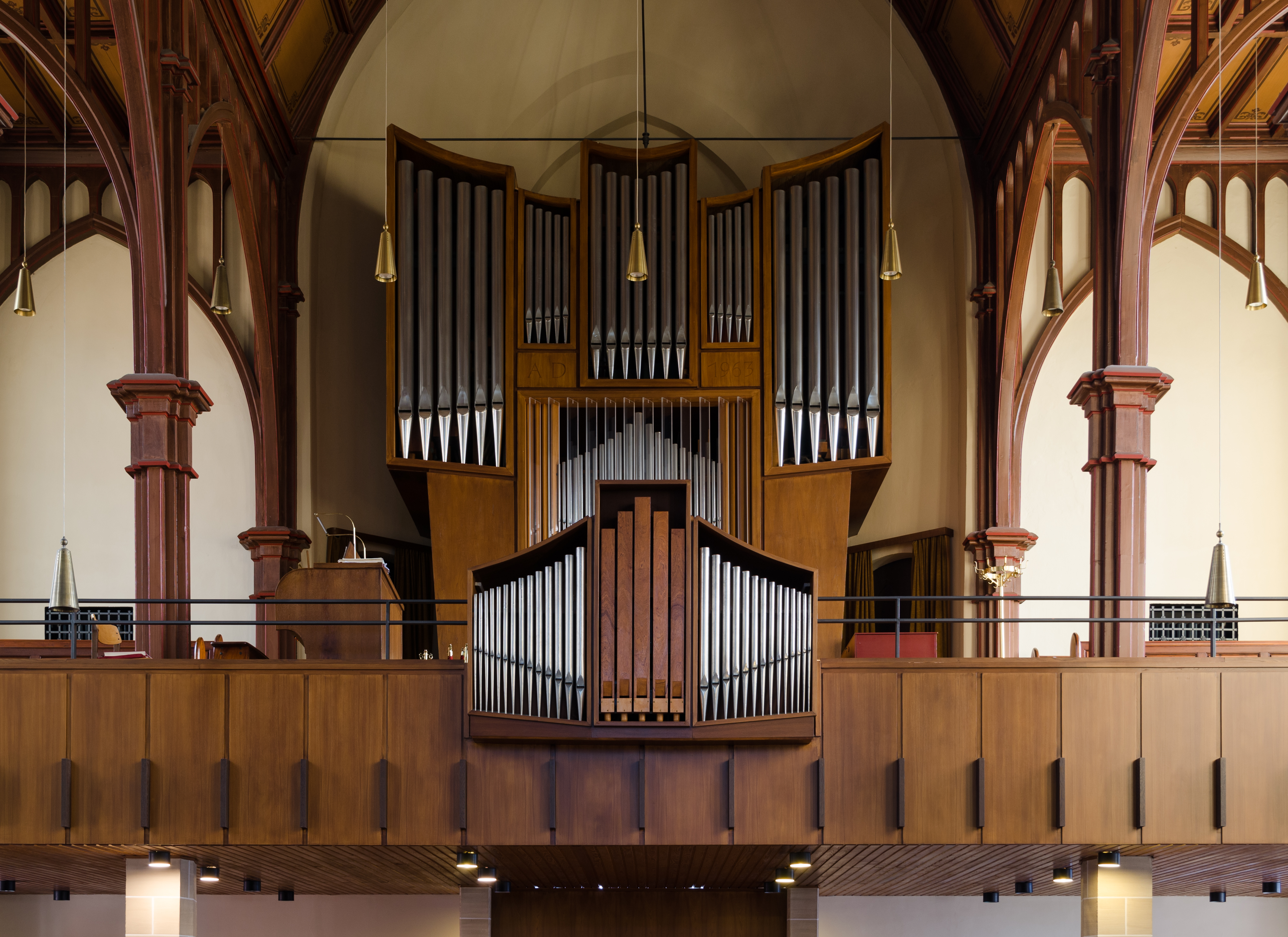 Mülheim (North Rhine-Westphalia, Germany) – district Speldorf – Protestant Luther Church – main pipe organ by Peter organ building (1963)